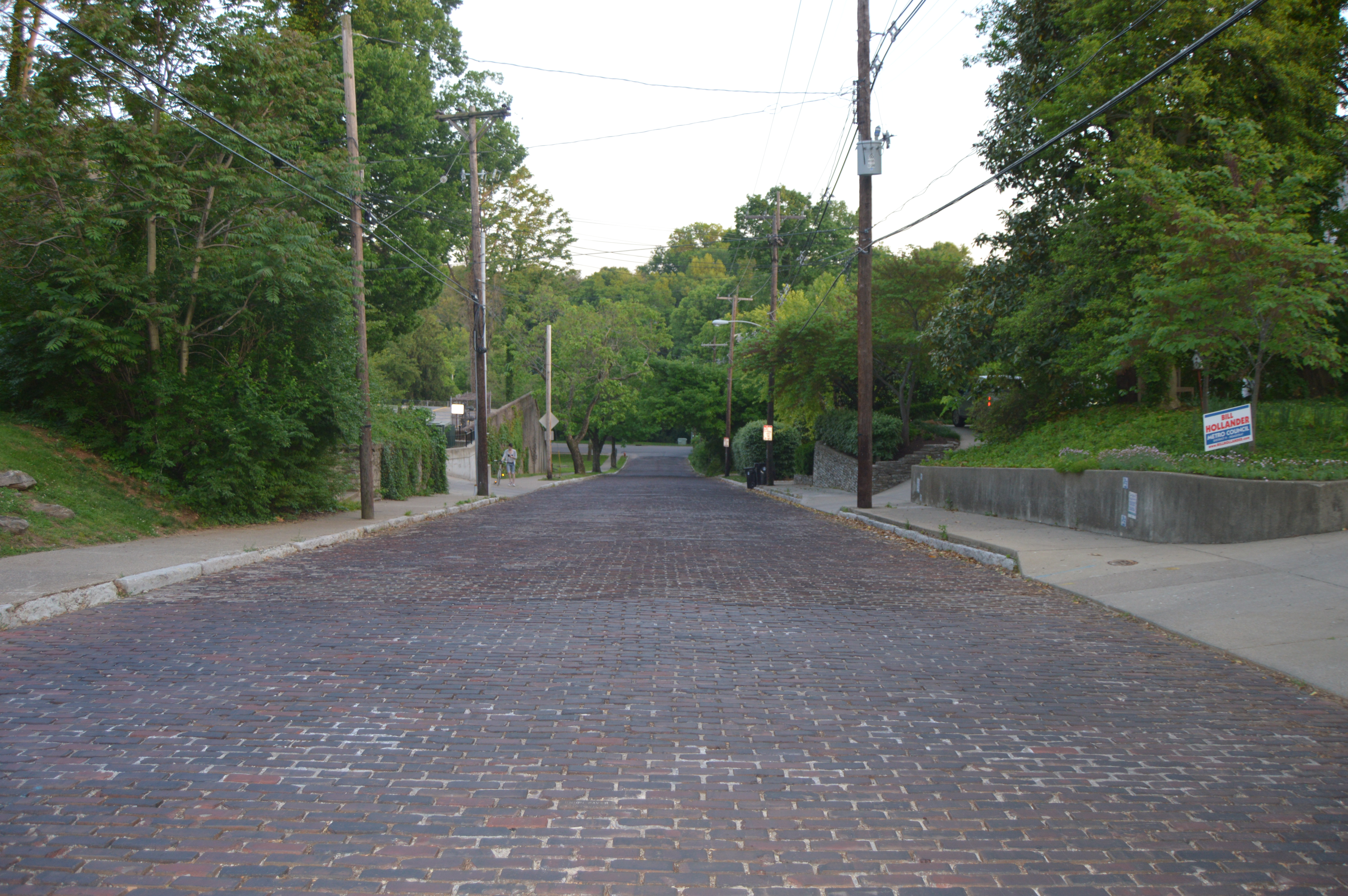 Looking southward down the Peterson Avenue Hill in Louisville, Kentucky, United States. The street itself, with the current pavement placed in 1902, has been listed on the National Register of Historic Places.